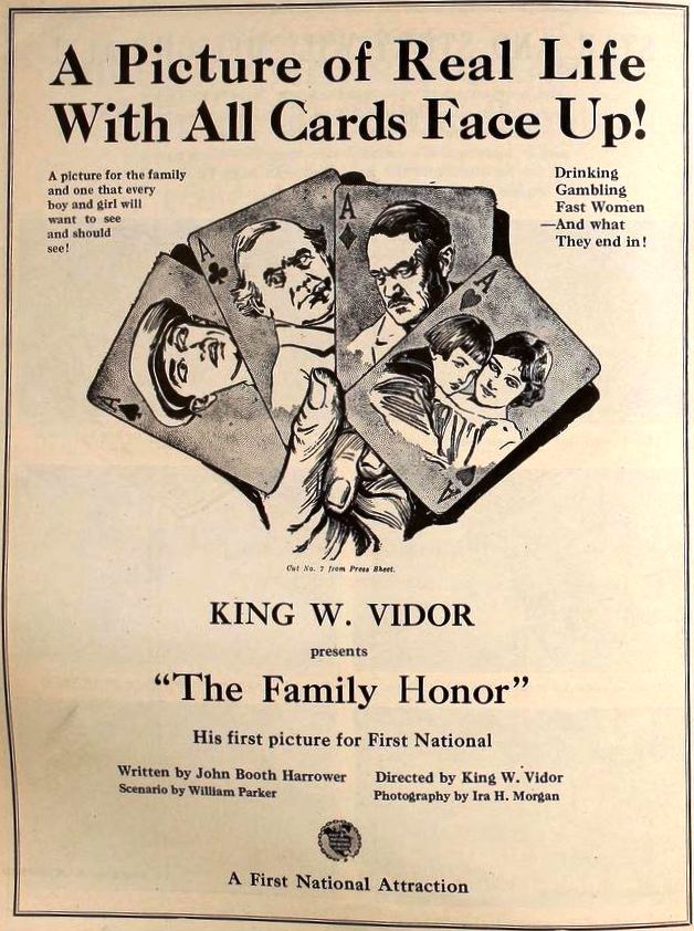 Ad for the American film The Family Honor (1920), on page 3232 of the April 10, 1920 Motion Picture News.